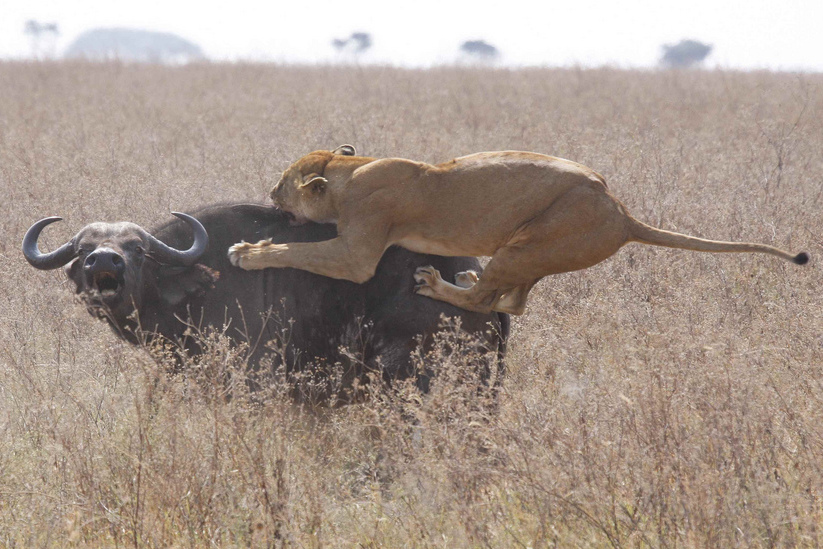 Lioness attacking Cape Buffalo in the Serengeti National Park